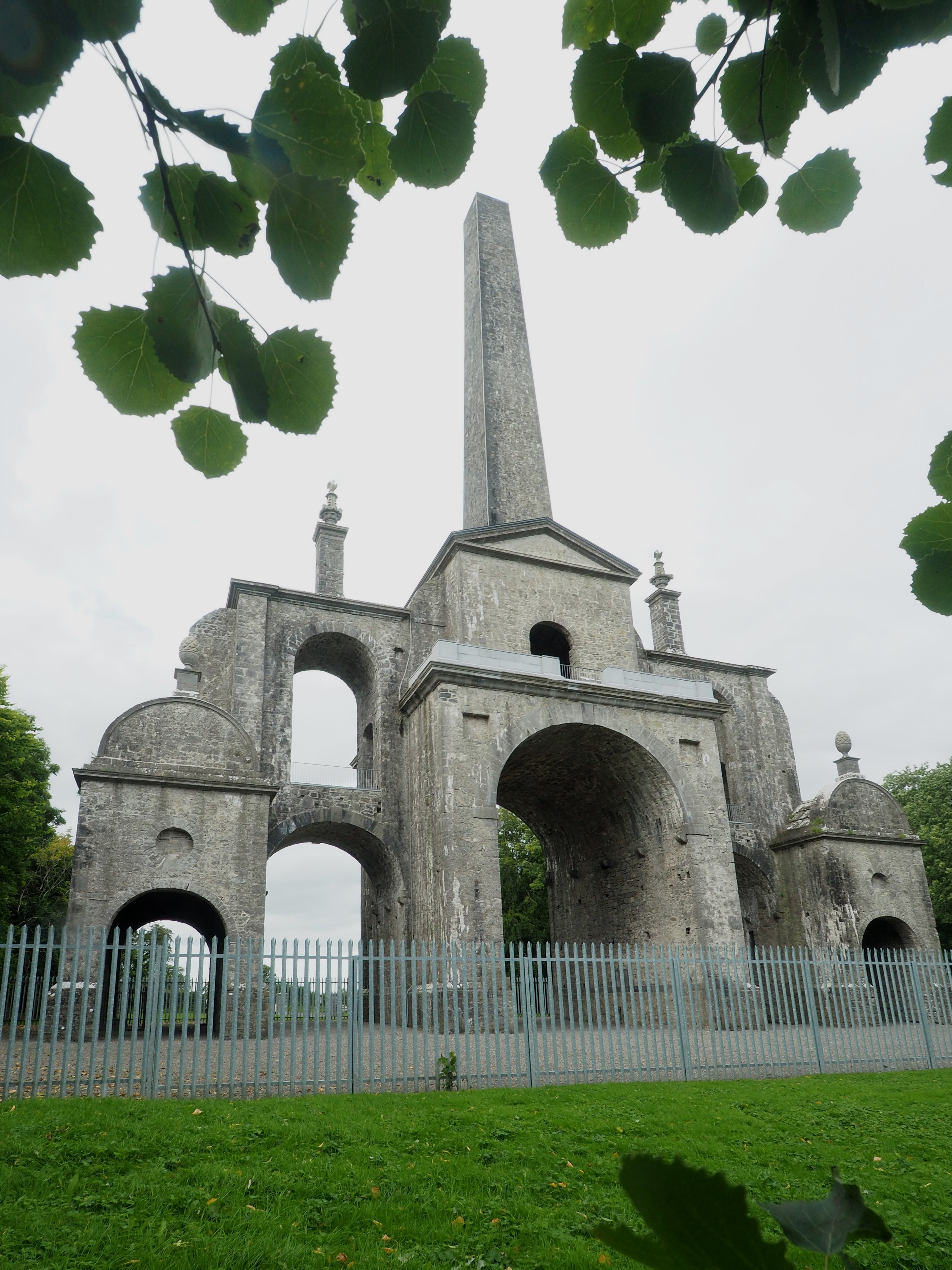 Connolly Folly Folly - Obelisk Barrogstown West